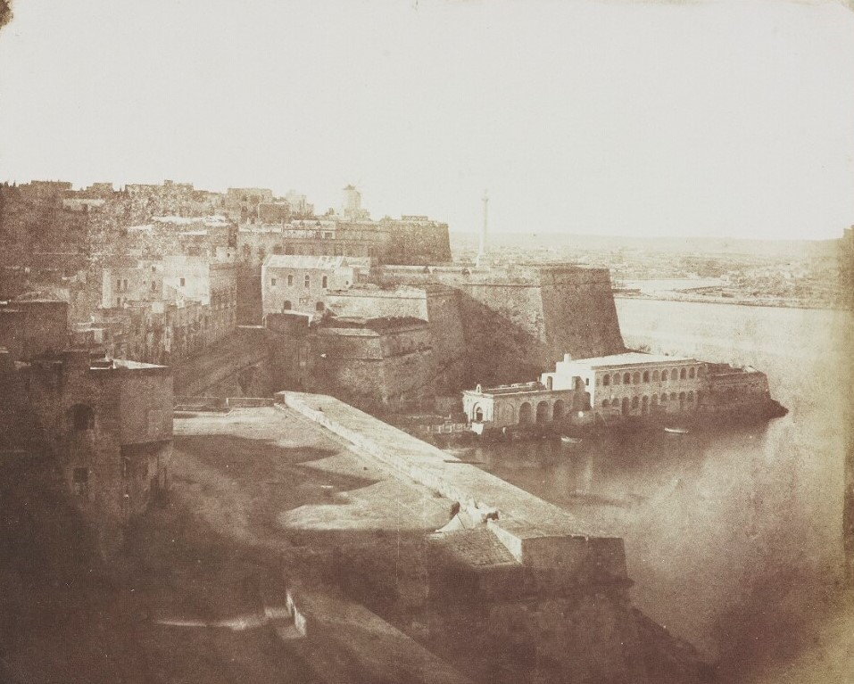 Calvert Jones, Marsa Muscetto Harbour, Malta 1846